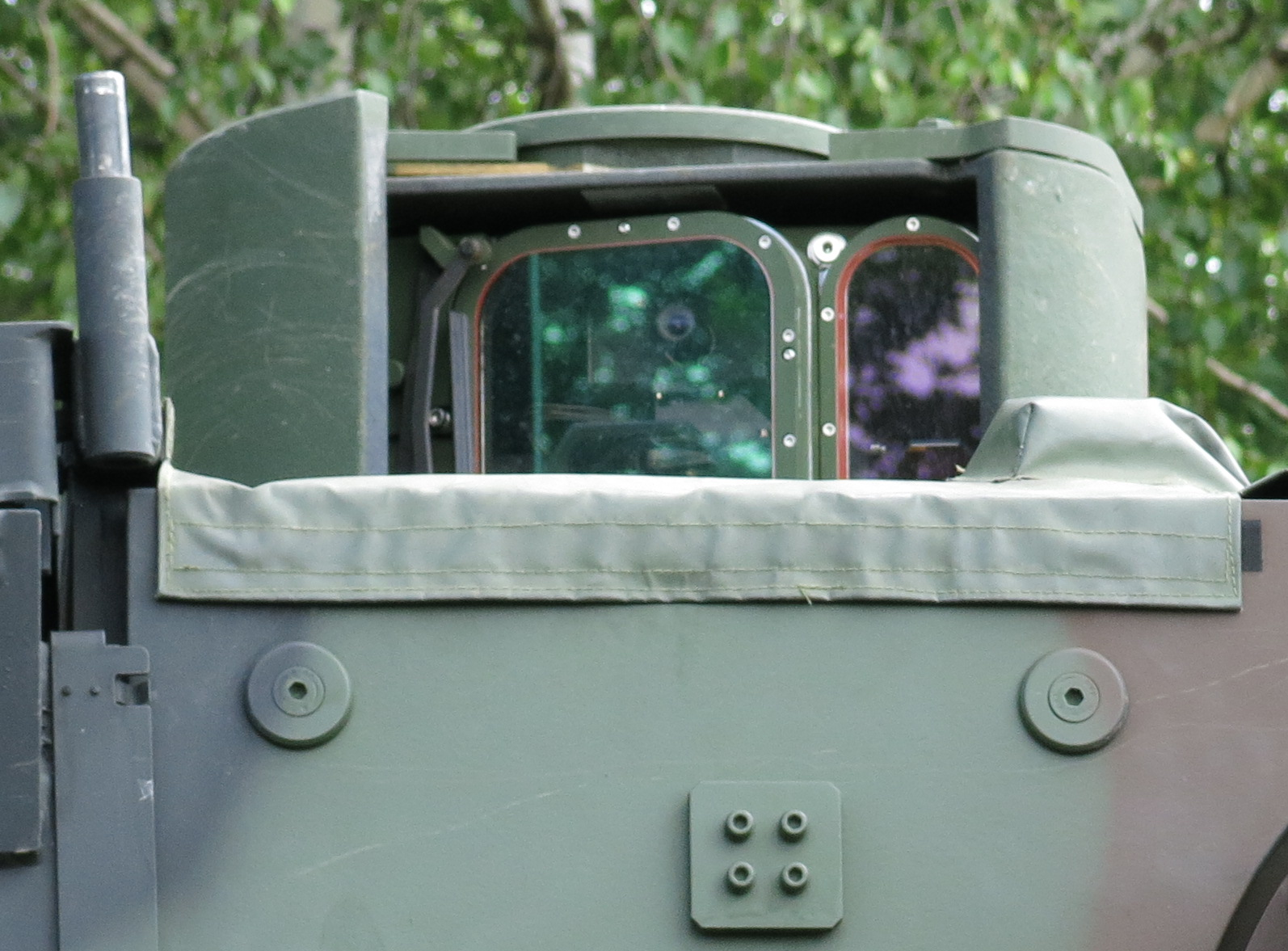 PERI (commanders sight) of Puma IFV. Open day at German Army Training Centre, Munster 2015